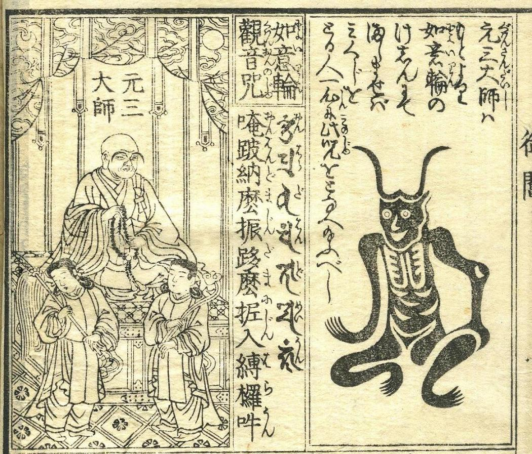 Two portraits of Ryogen (912-985) with the Mantra Cintamani-cakra "OM VARADA PADME HUM / OM PADMA CINTAMANI DŻWALA HUM". Ryogen is generally known by the names of Gansan Daishi (left) or Tsuno Daishi (right). The figure of Tsuno Daishi (horned great master) is said to be a portrait of him subjugating vengeful ghosts. 良源の肖像二つ。元三大師と角大師。「元三大師は もとより 如意輪の 化身にて おませば みくじを とる人一心に此の咒をとなへるべし／如意輪観音咒／おんはらだはんどめいうん おんはんどまじんだまにじんはらうん（唵跛納麼振…）」